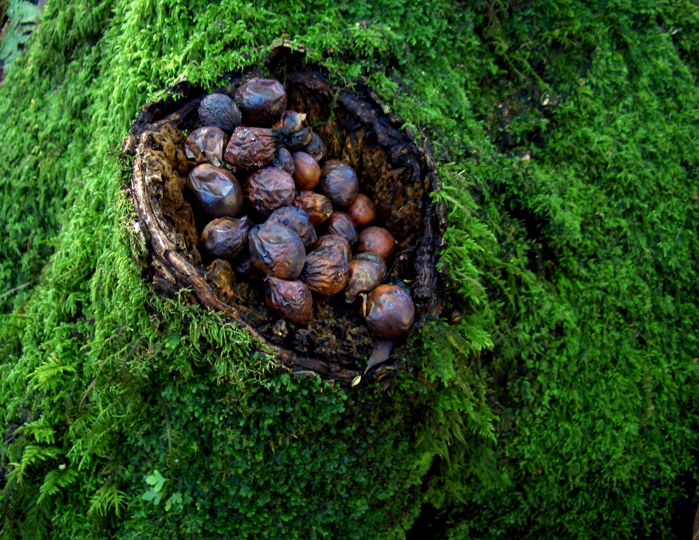 discovered while mountain biking today...